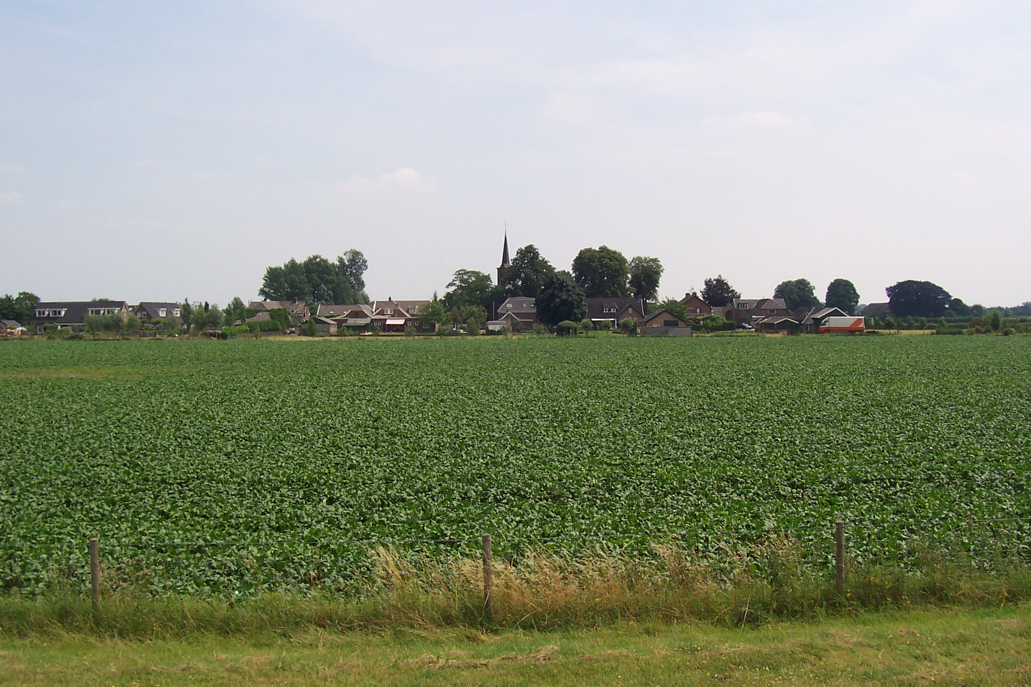 Olburgen seen from the northwestside